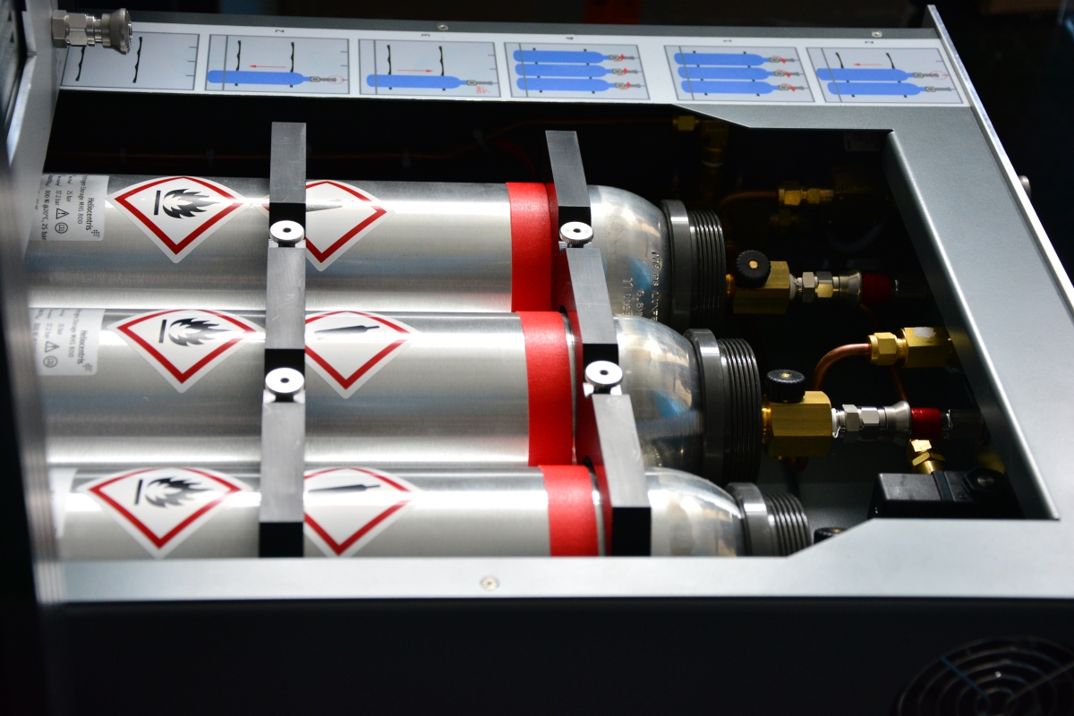 Metal hydride storage canisters in a hydrogen application.